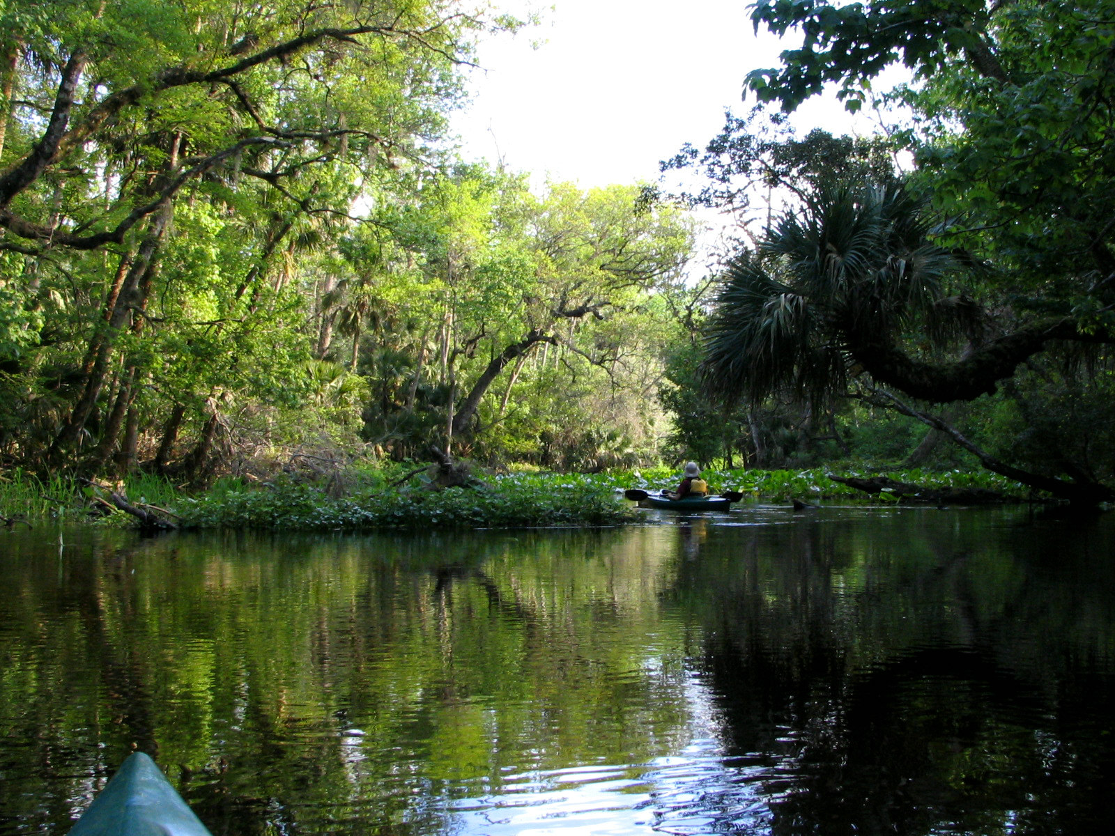 Wekiwa Run near Wekiwa Spring. Taken by User:Mwanner, 22 Feb, 2006.